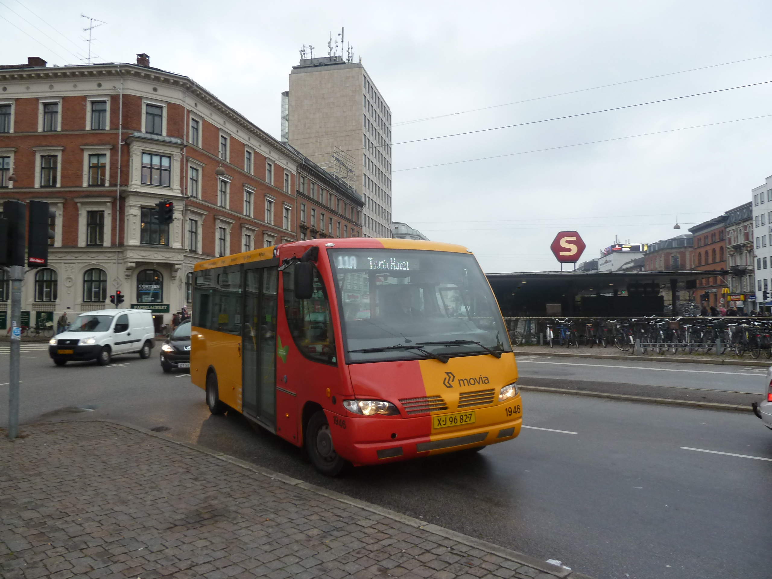 Battery bus on line 11A at Nørreport Station in Copenhagen.